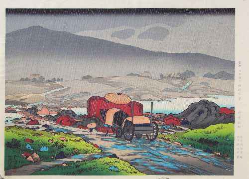 Rain at Yabakei, woodblock print; ink and color on paper